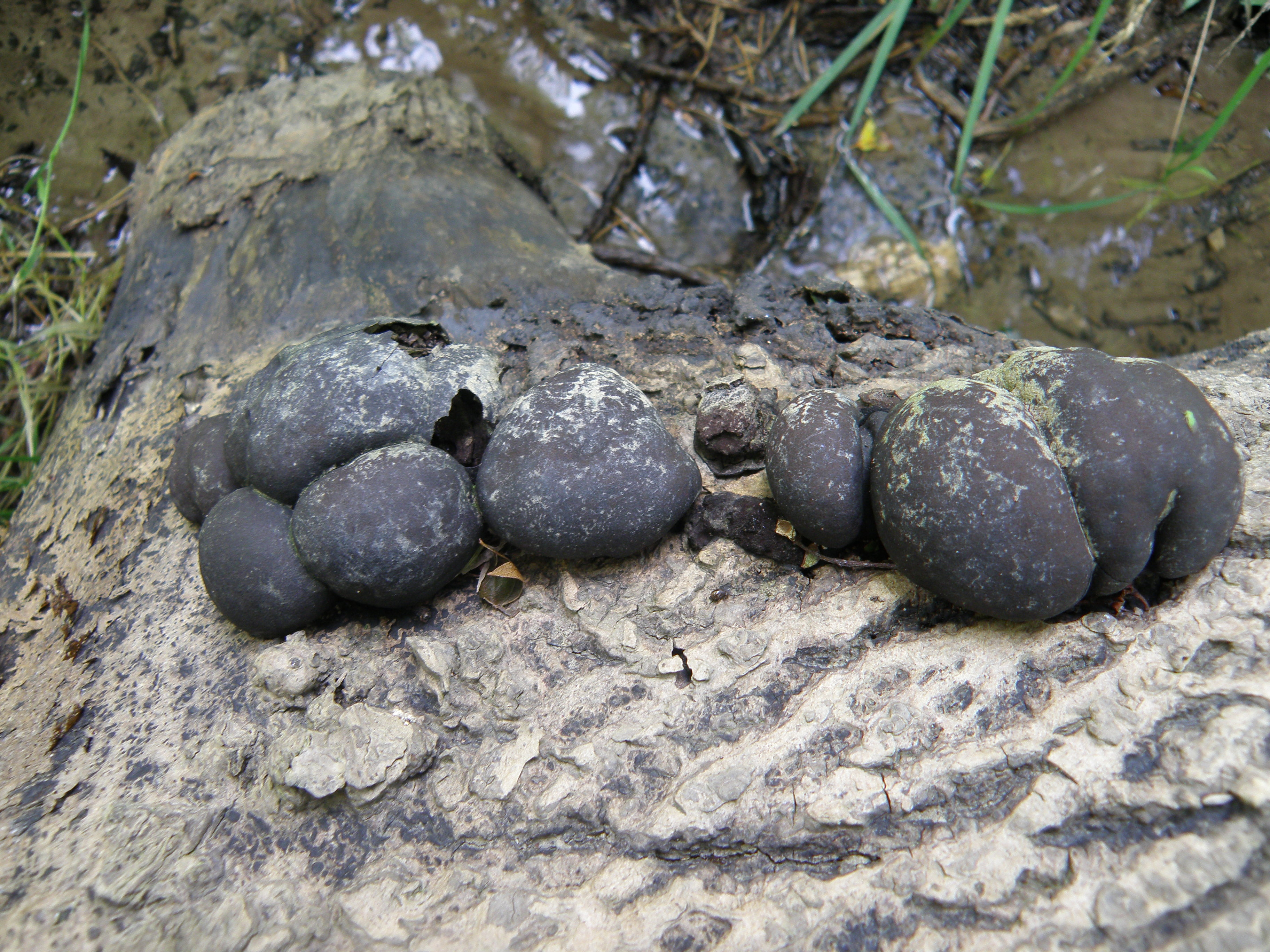 Collection of Daldinia concentrica on a rotting log in marshland. Talen near Askam-in-Furness, Cumbria, England.